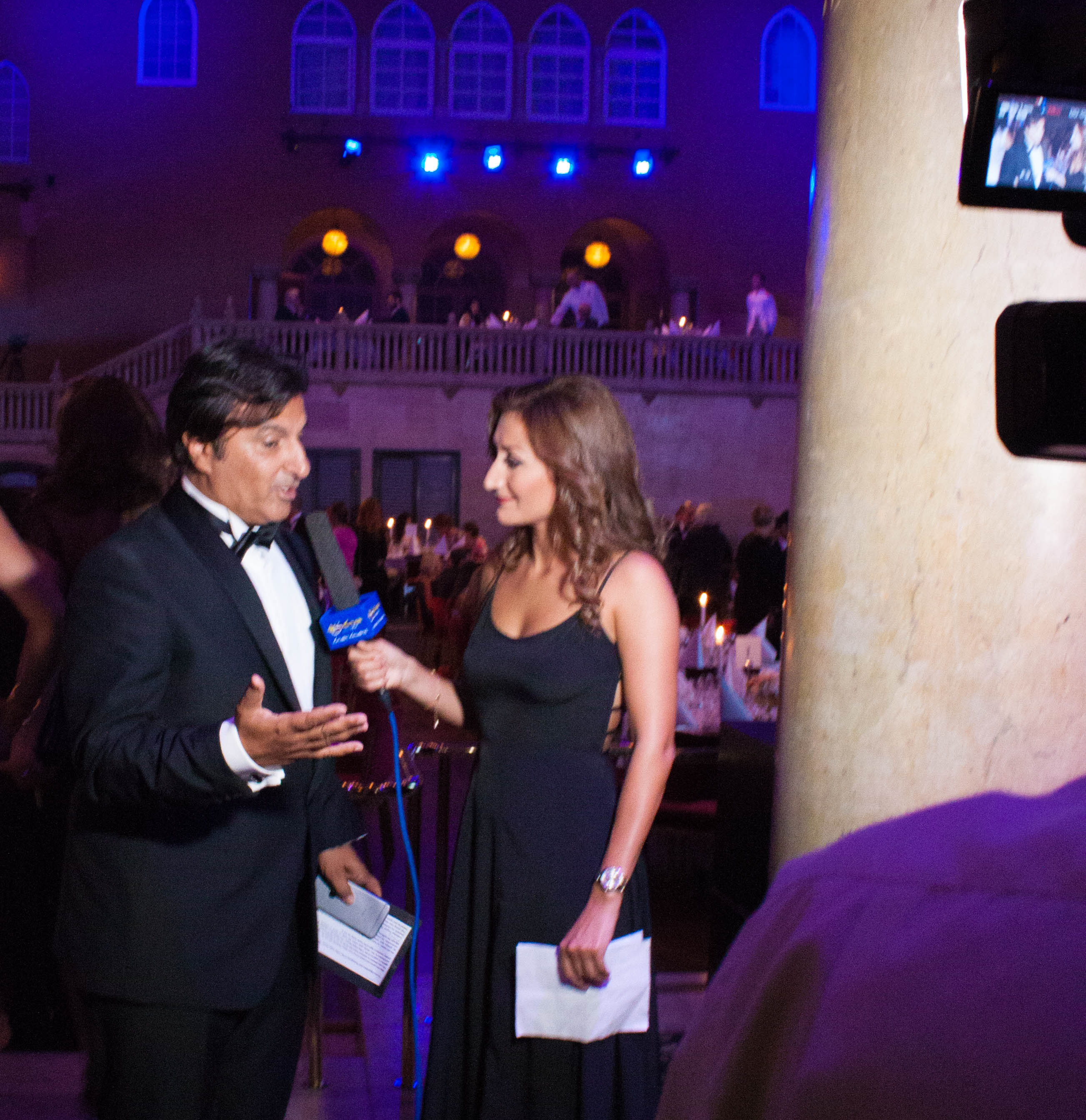 Nuri Kino at the Little Angel gala in Stockholm, Sweden, August 20, 2015.